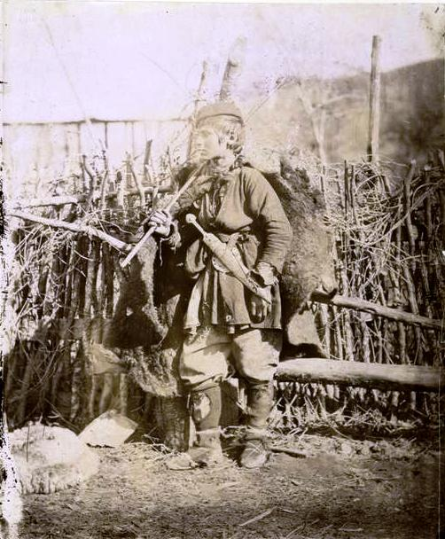 Georgian shepherd